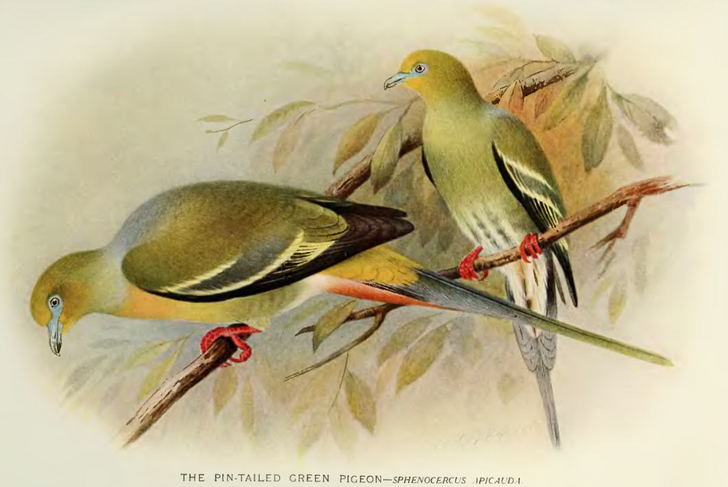 Treron apicauda